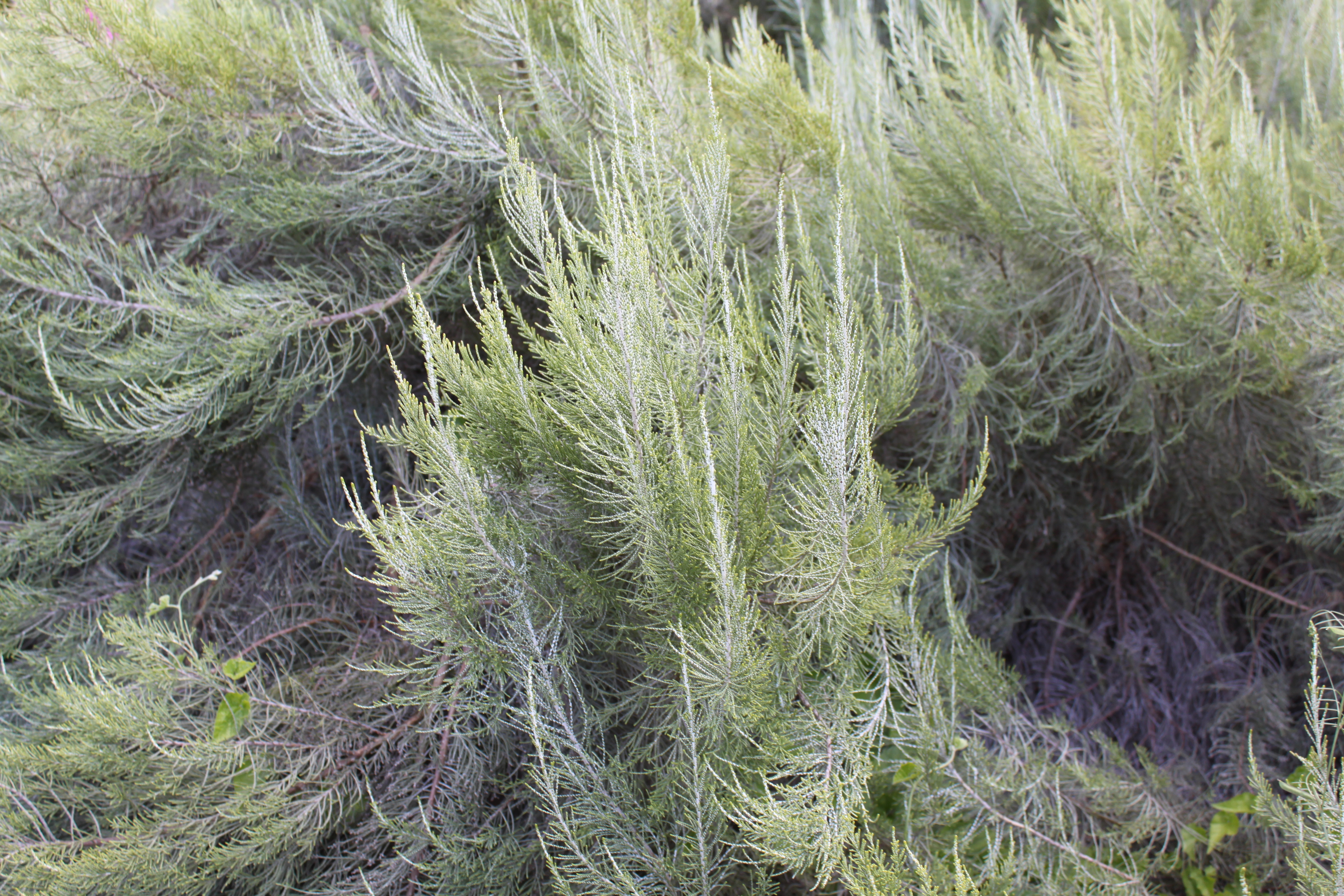 Renosterbos, or Elytropappus rhinocerotis. A key species in, and namesake of, the Renosterveld vegetation type, in South Africa.